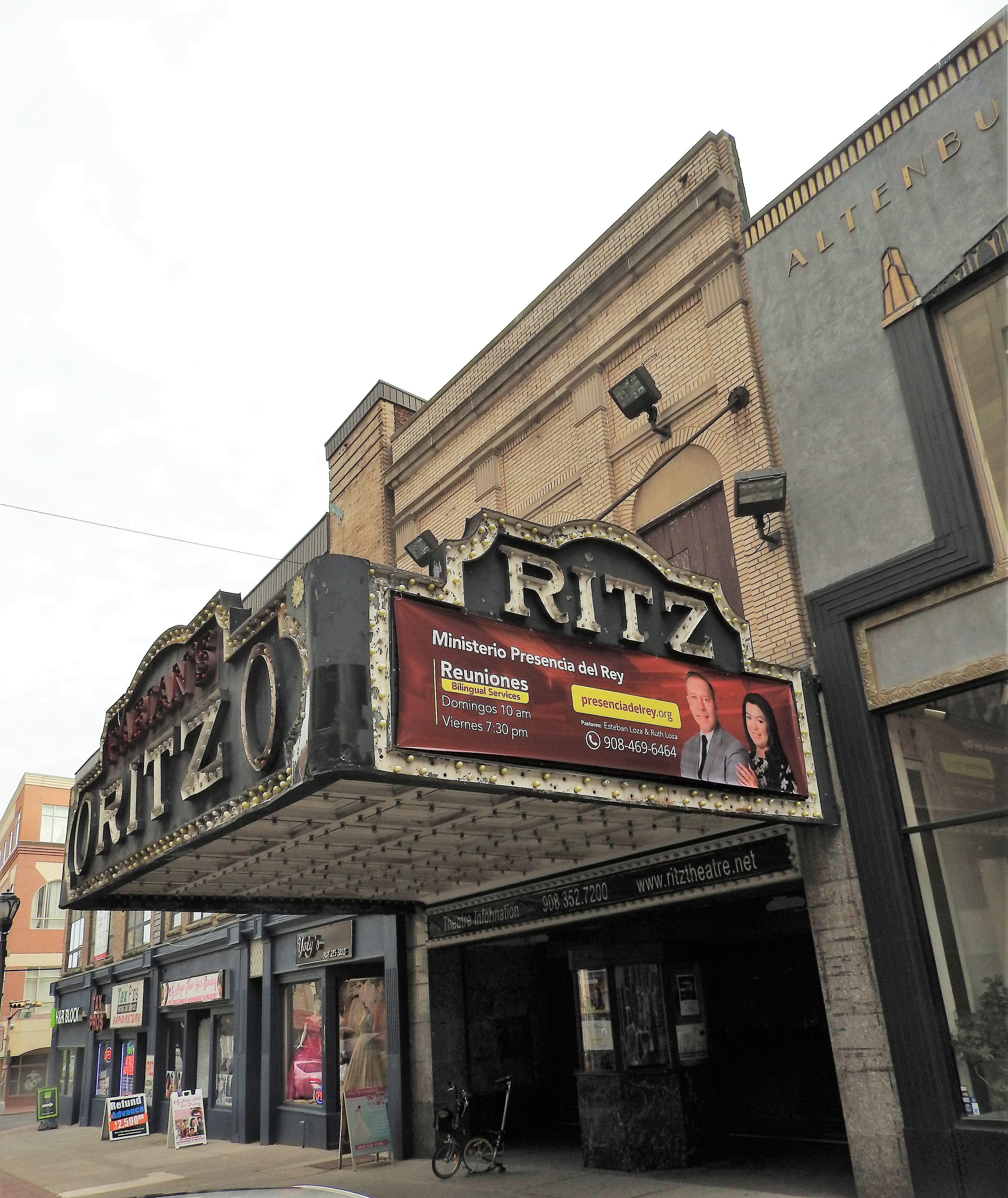 Looking southeast on a cloudy afternoon